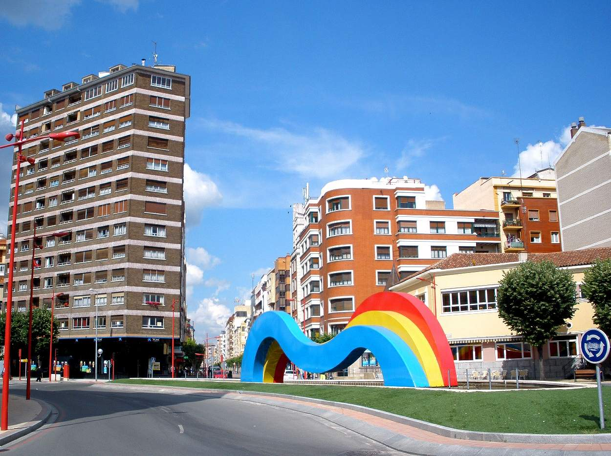 Glorieta central de Miranda de Ebro